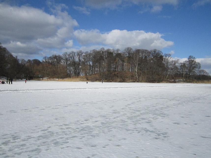 Karlsborg Island a.k.a. Haga holme, all of which is the Royal Cemetery Kungliga begravningsplatsen, as released by image creator RistessonPlace: Solna, Sweden